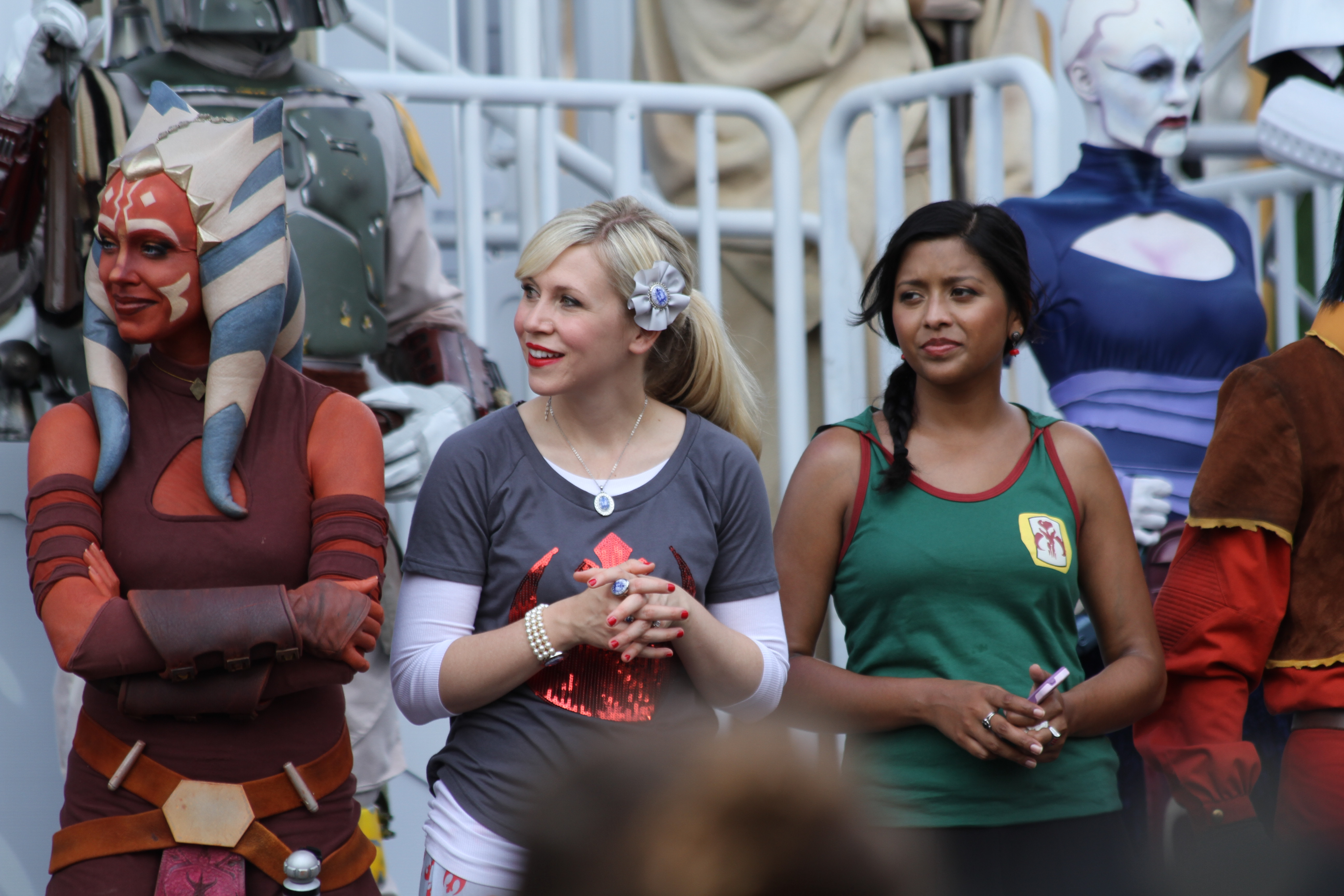 Star Wars Weekends 2014. Saturday, Weekend #2